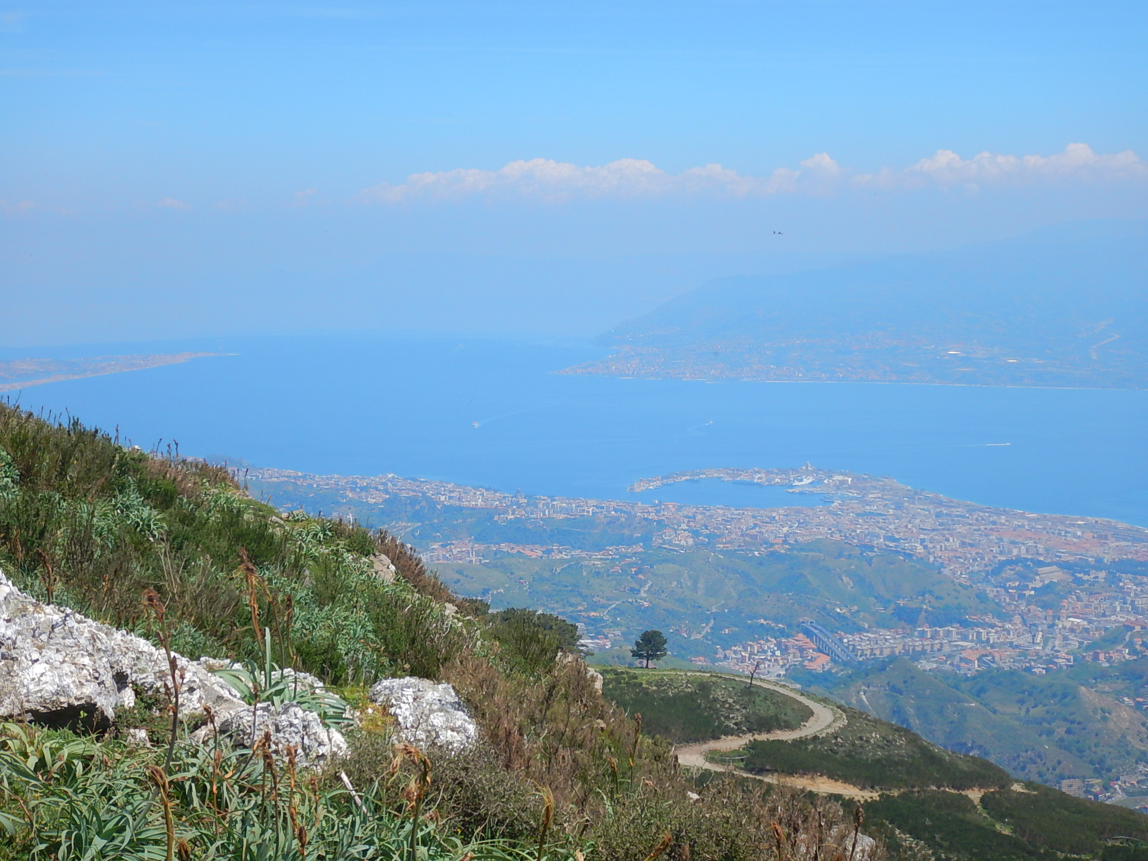 Strait of Messina from mount Dinnammare,Peloritani, Sicily